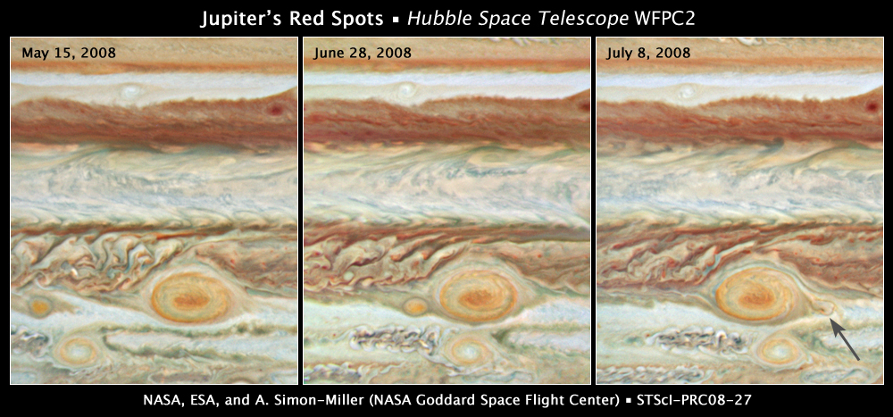 This sequence of Hubble Space Telescope images offers an unprecedented view of a planetary game of Pac-Man among three red spots clustered together in Jupiter's atmosphere. The time series shows the passage of the "Red Spot Jr." in a band of clouds below (south) of the Great Red Spot (GRS). "Red Spot Jr." first appeared on Jupiter in early 2006 when a previously white storm turned red. This is the second time, since turning red, it has skirted past its big brother apparently unscathed. But this is not the fate of "baby red spot," which is in the same latitudinal band as the GRS. This new red spot first appeared earlier in 2008. The baby red spot gets ever closer to the GRS in this picture sequence until it is caught up in the anticyclonic spin of the GRS. In the final image the baby spot is deformed and pale in color and has been spun to the right (east) of the GRS. (Amateur astronomers' observations confirm that this is the baby spot that migrated around the GRS.) The prediction is that the baby spot will now get pulled back into the GRS "Cuisinart" and disappear for good. This is one possible mechanism that has powered and sustained the GRS for at least 150 years. These three natural-color Jupiter images were made from data acquired on May 15, June 28, and July 8, 2008, by the Wide Field Planetary Camera 2 (WFPC2). Each one covers 58 degrees of Jovian latitude and 70 degrees of longitude (centered on 5 degrees South latitude and 110, 121, and 121 degrees West longitude, respectively).